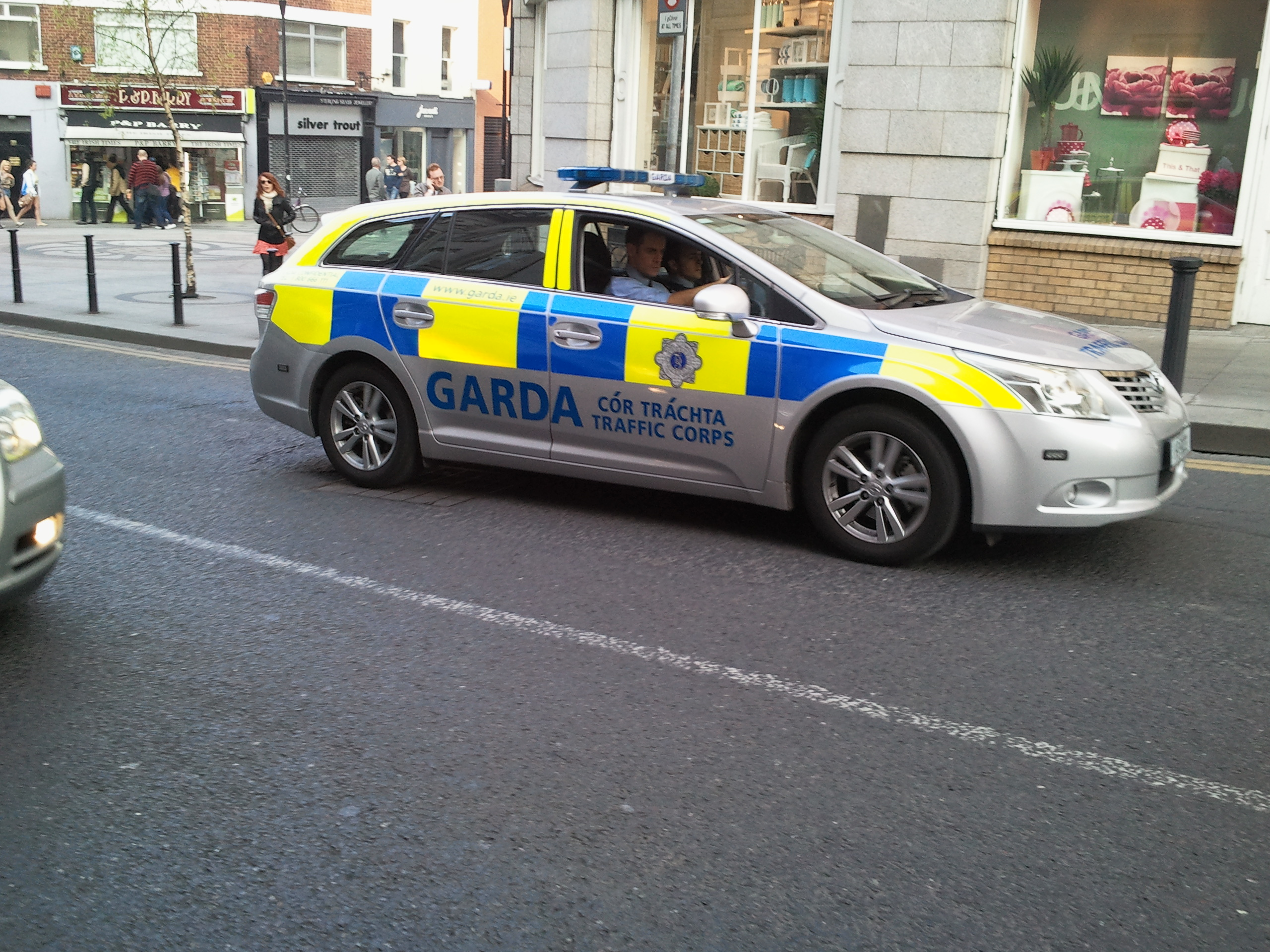 silver garda car, Dublin Ireland